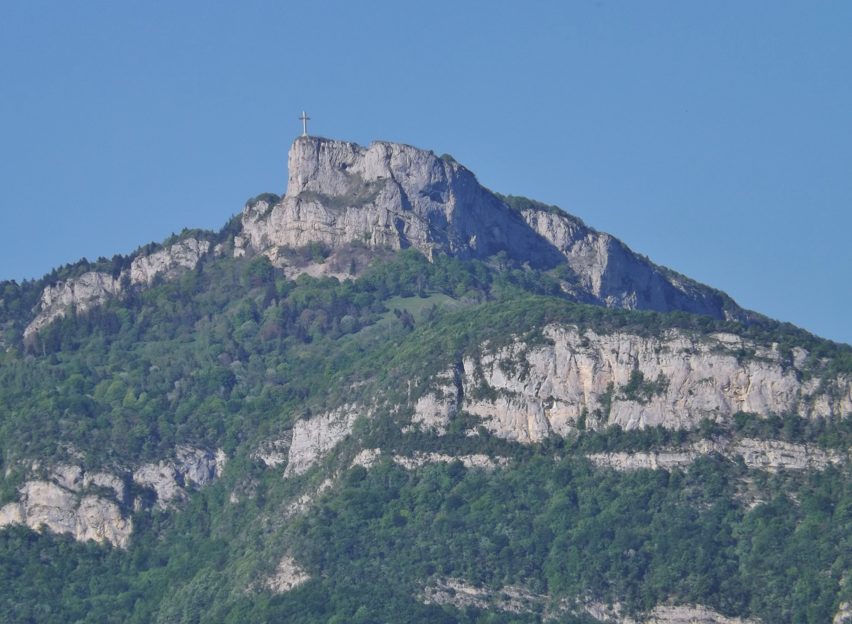 Sight, from Chambéry in the evening, of the Nivolet mountain (1,547 meters high) and its cross, in Savoie, France.